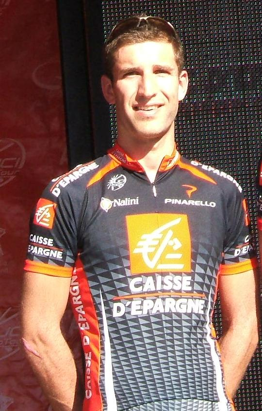 Named cyclist at the en:2009 Tour Down Under team presentation